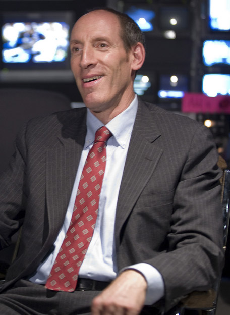 Aaron Harber guest host Colorado Decides 2008